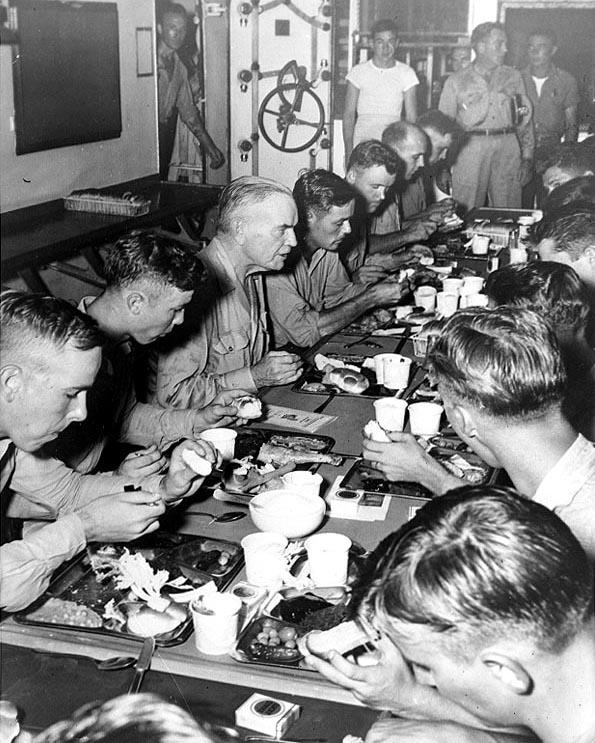 Admiral Halsey dines with the crew aboard USS New Jersey (BB-62) Thanksgiving Day, November 23, 1944.